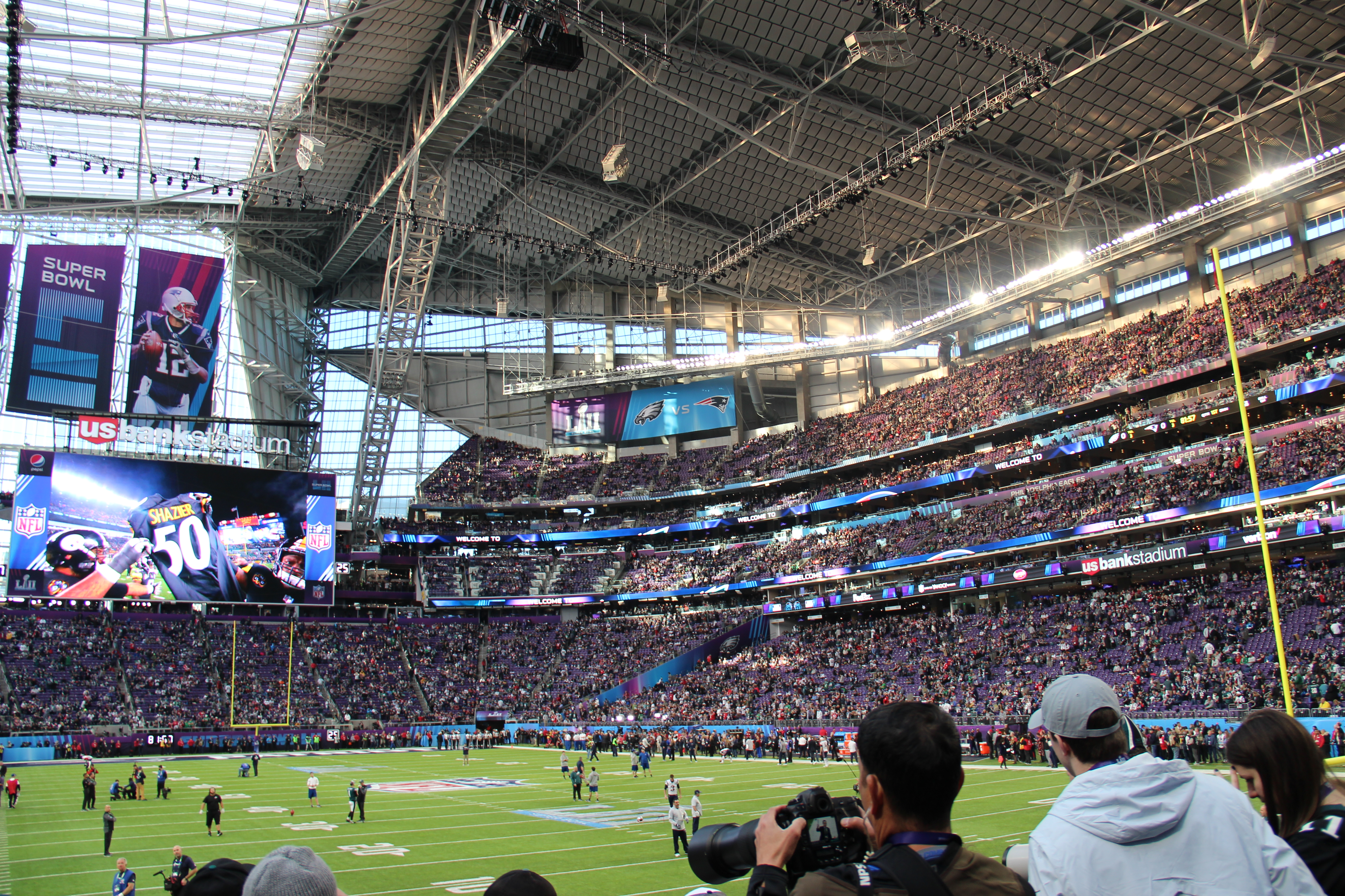 US Bank Stadium, 82 minutes before Super Bowl LII kicked off.